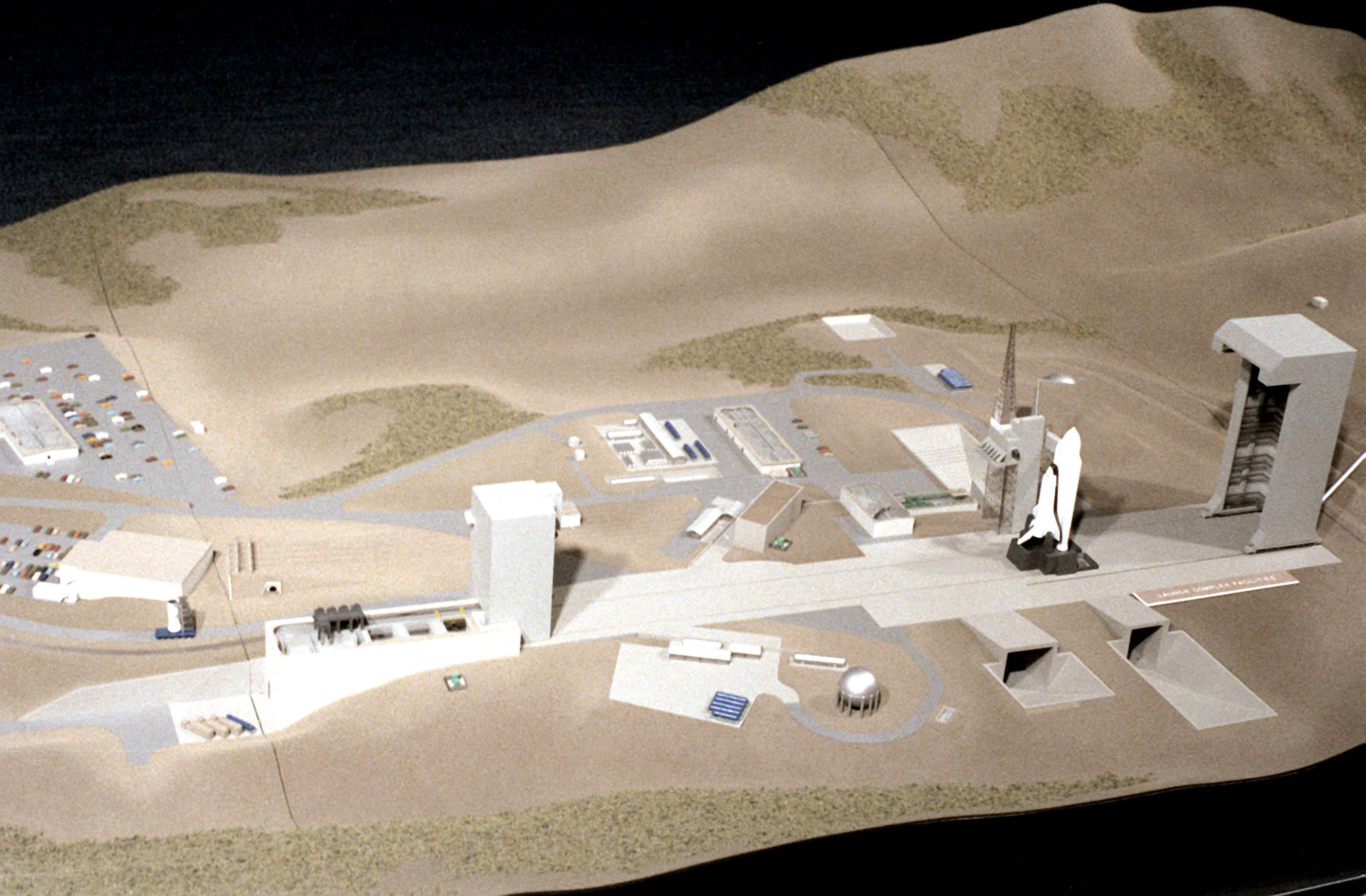 Model of the modifications to be made to Vandenberg Air Force Base Space Launch Complex 6 to support space shuttle launch operations.